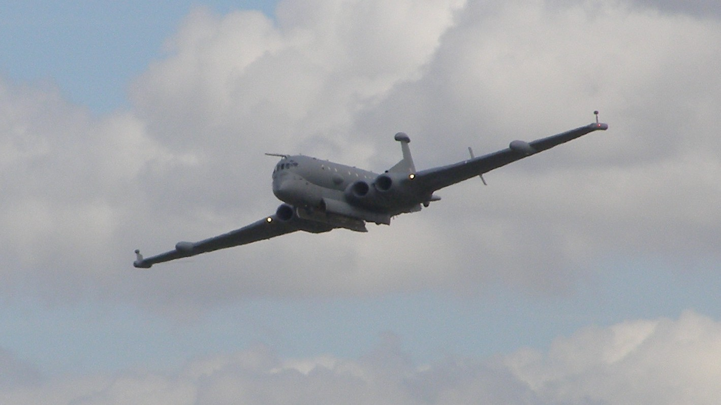 BAe Nimrod MRA4 "ZJ518" at the 2007 Royal International Air Tattoo, RAF Fairford